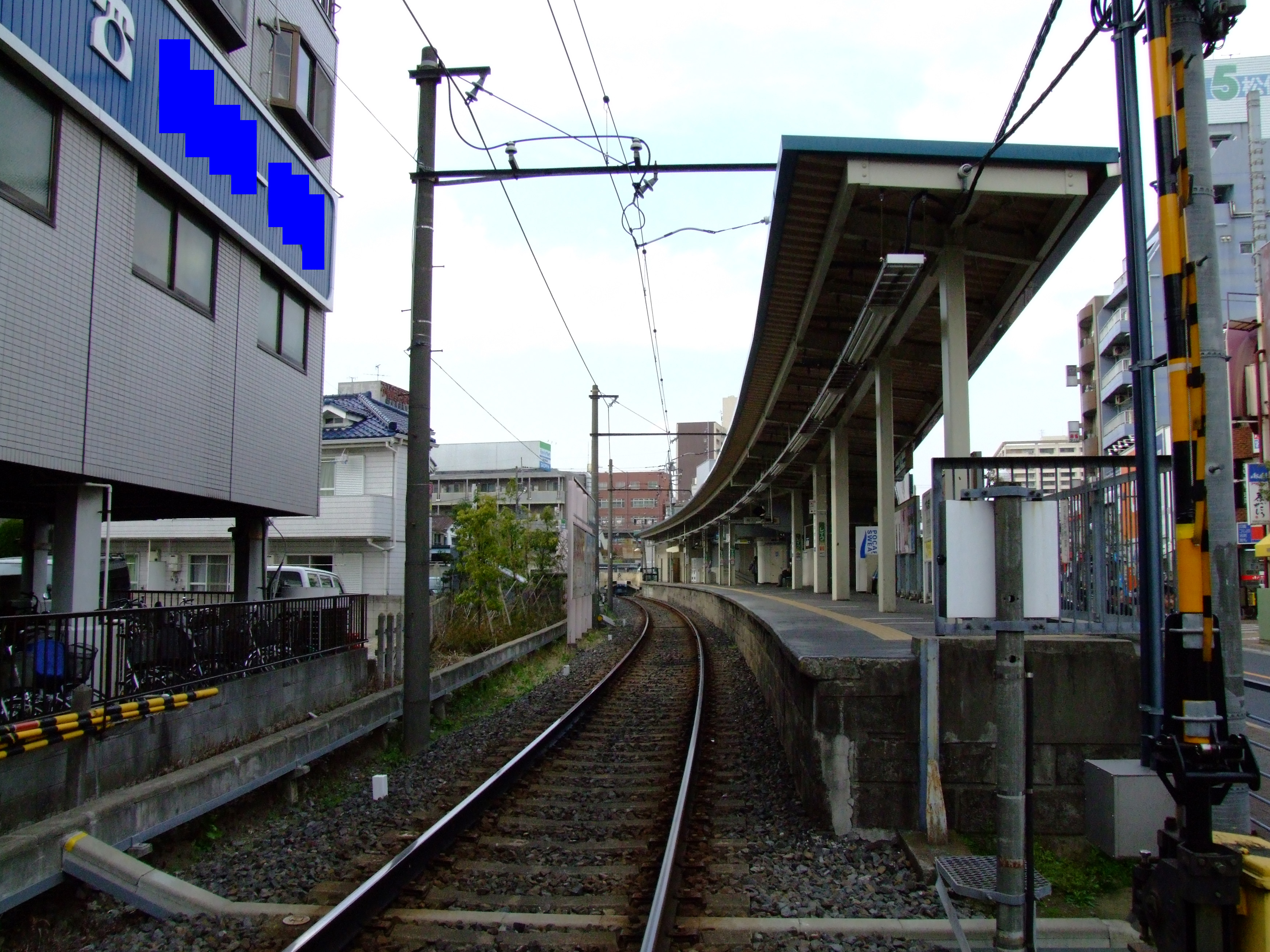 The platform at Keisei Kanamachi Station